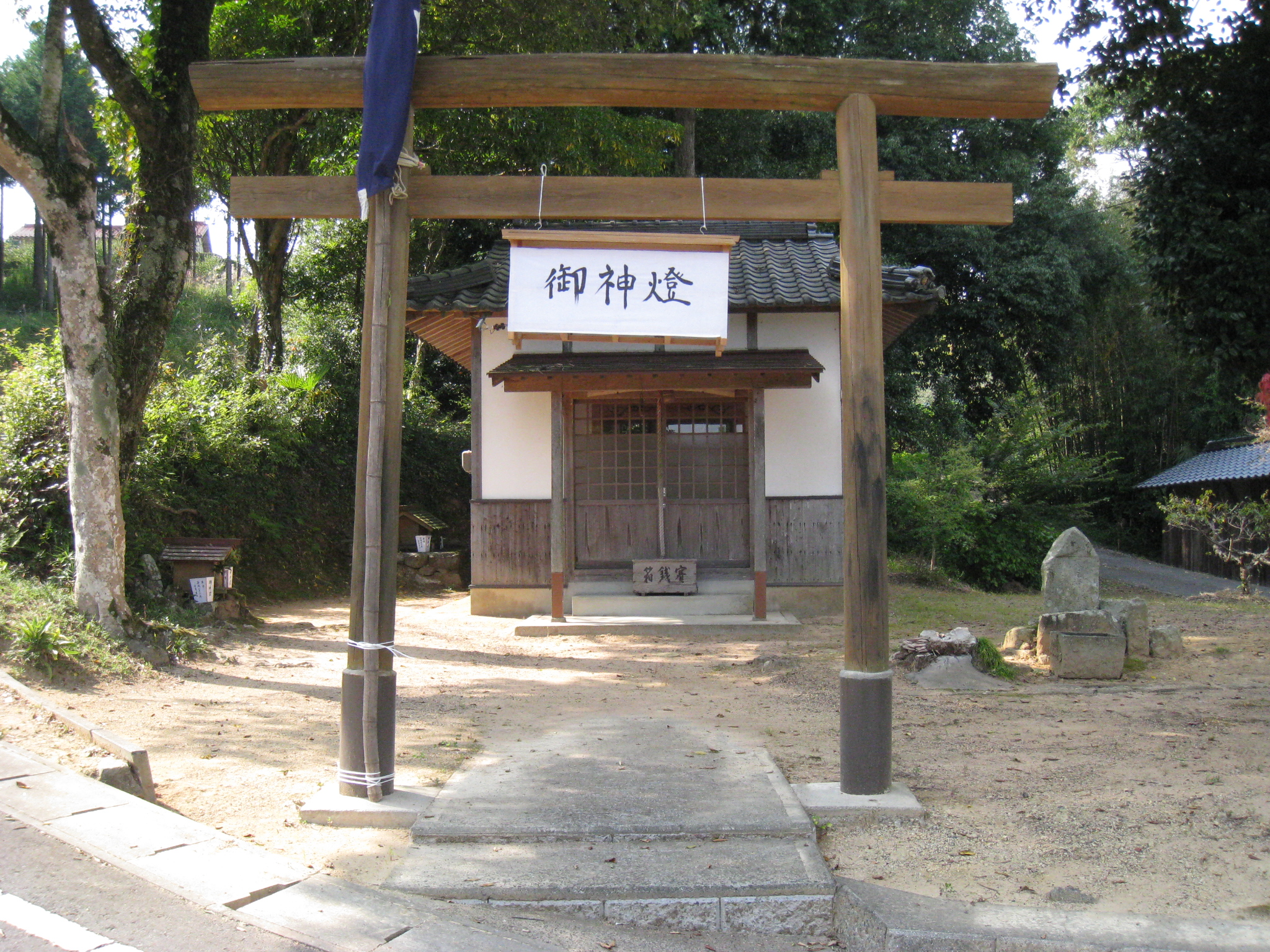 shrine.